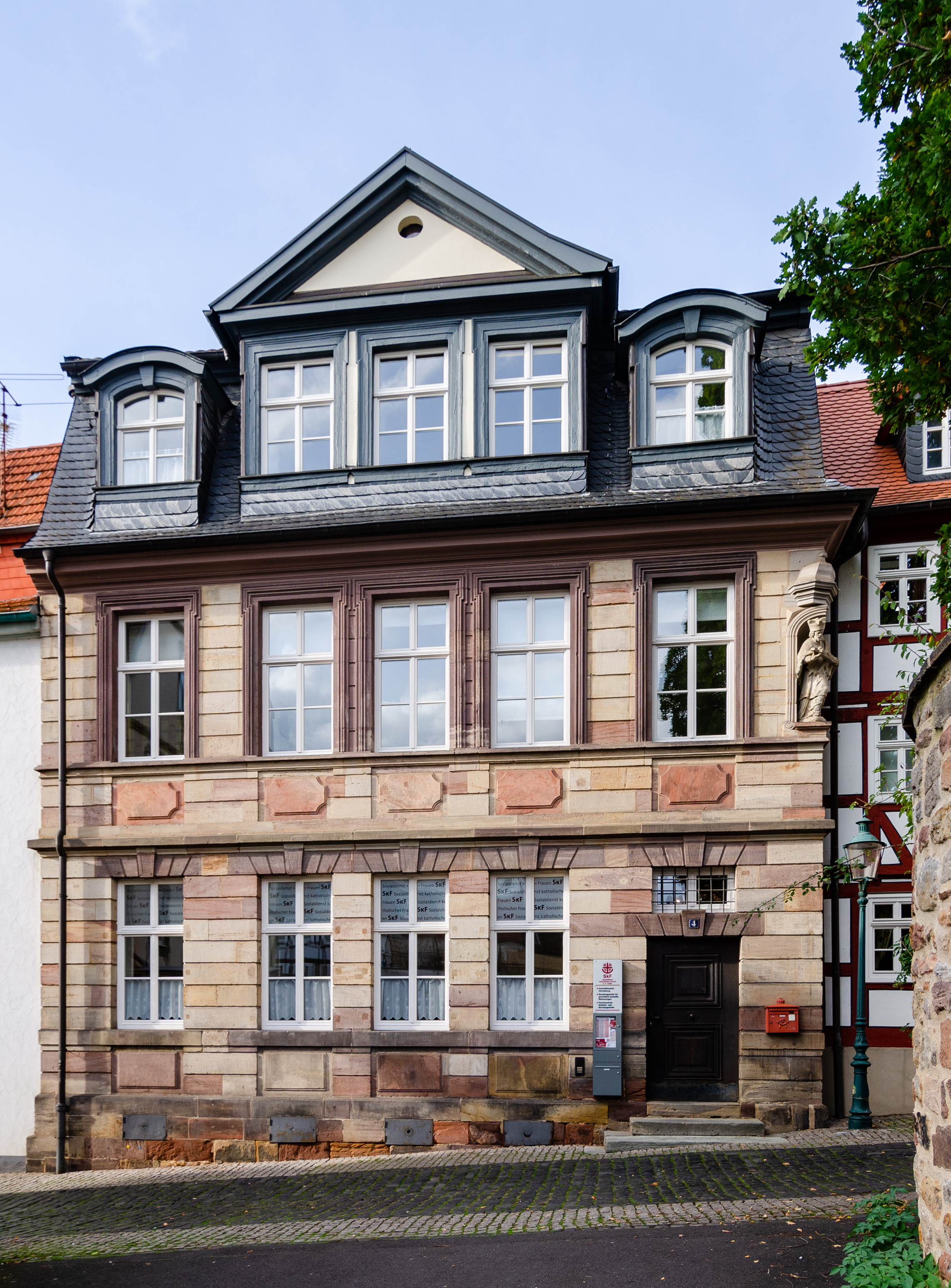 Fulda (Hesse, Germany) – Baroque house (1710) of Johann Dientzenhofer